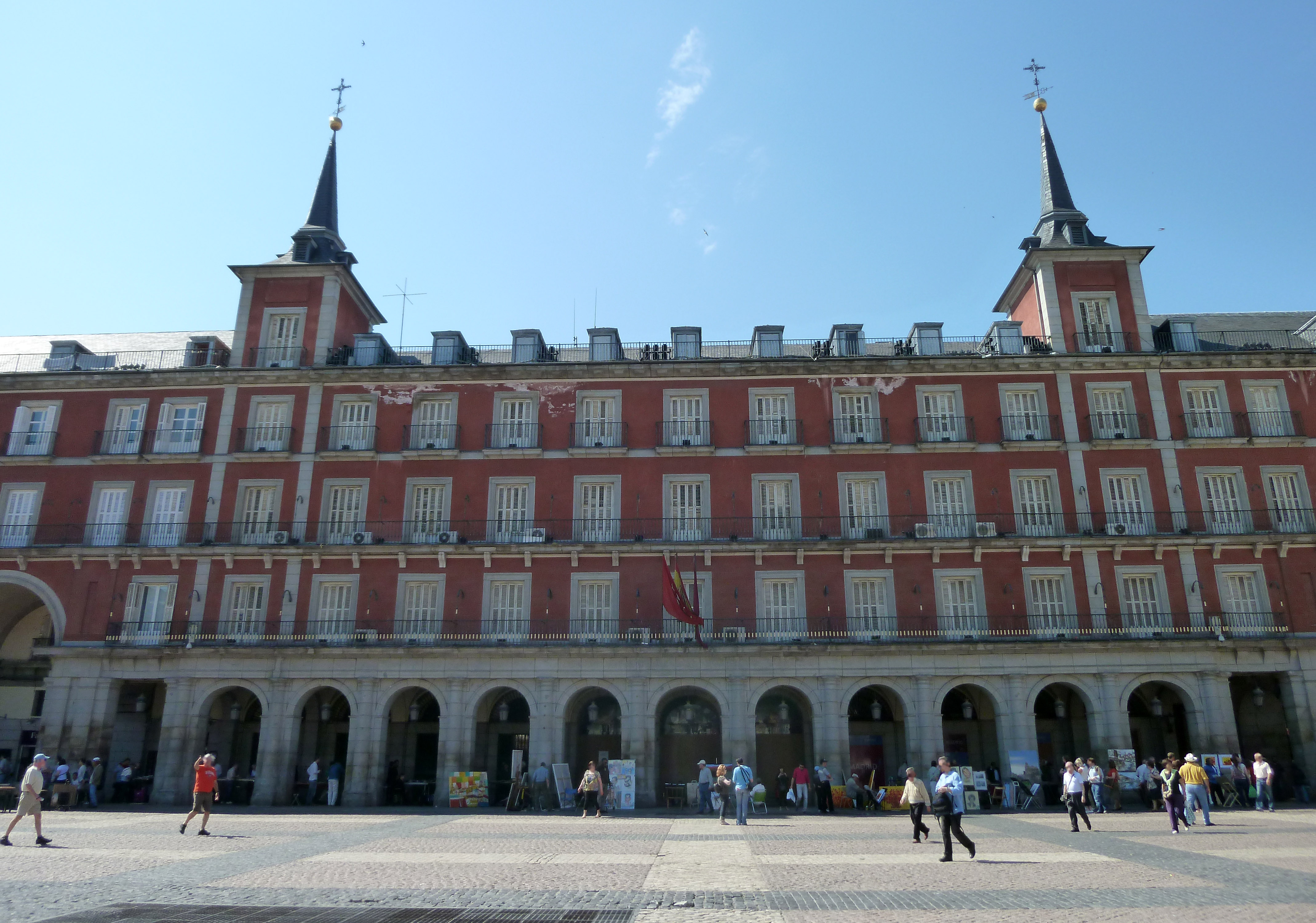 Façade of Casa de la Carnicería at Plaza Mayor (square) in Madrid (Spain).